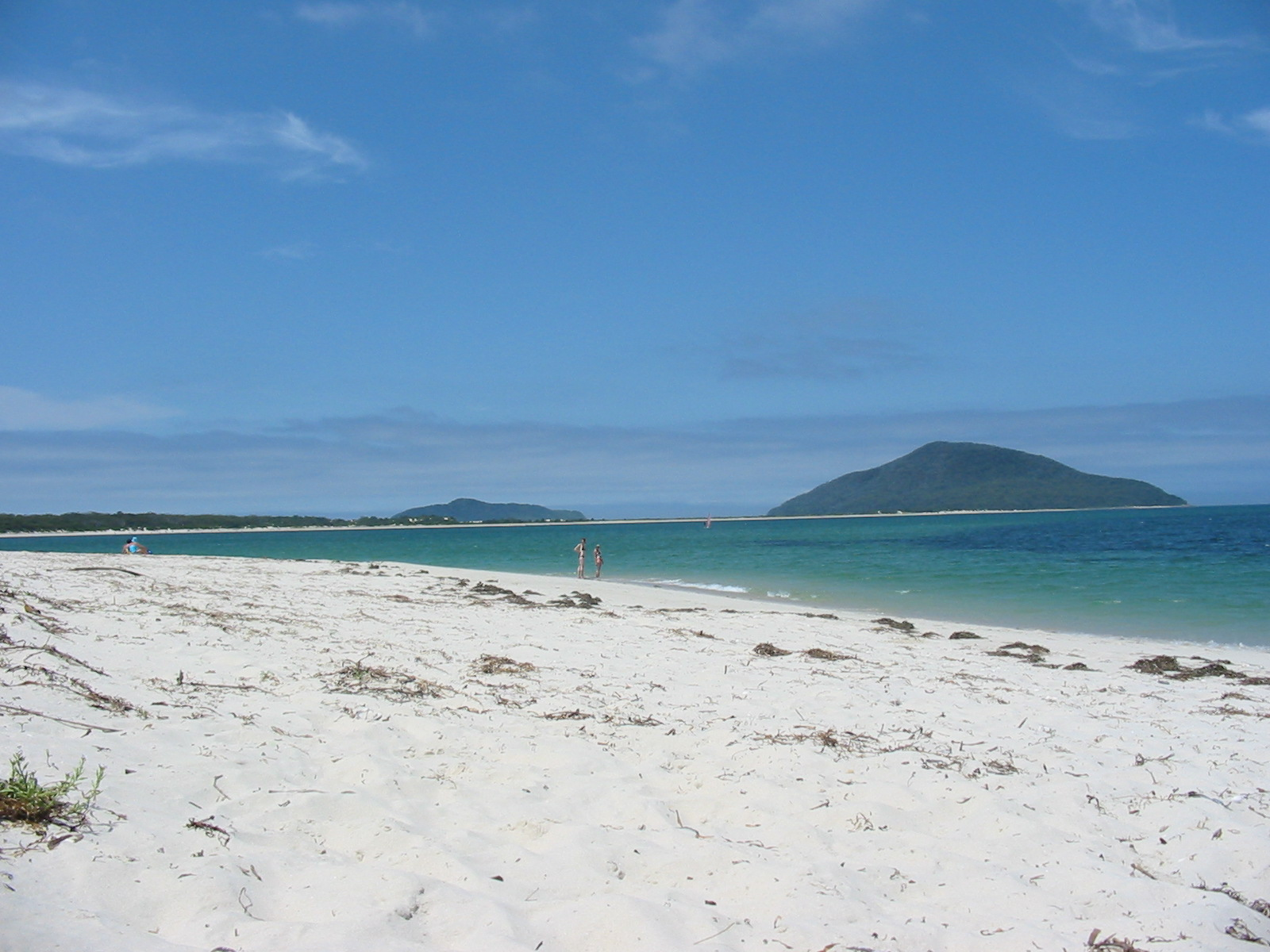 View from the west end of Jimmy's Beach (Winda Woppa), looking east toward Yacabba Headland Taken on holiday at Hawks Nest, February 2004